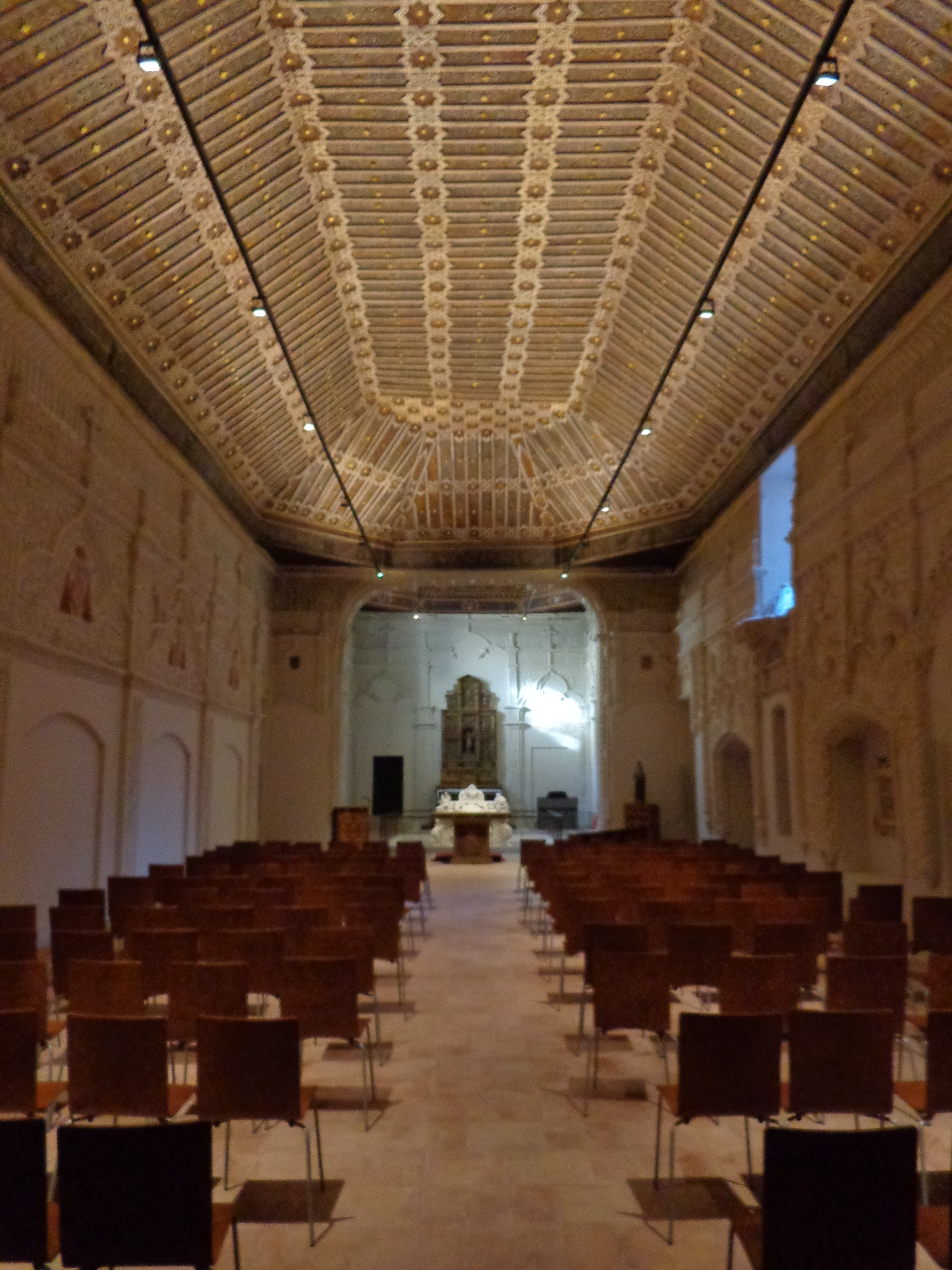 Chapel of Saint Ildephonsus, Alcalá de Henares